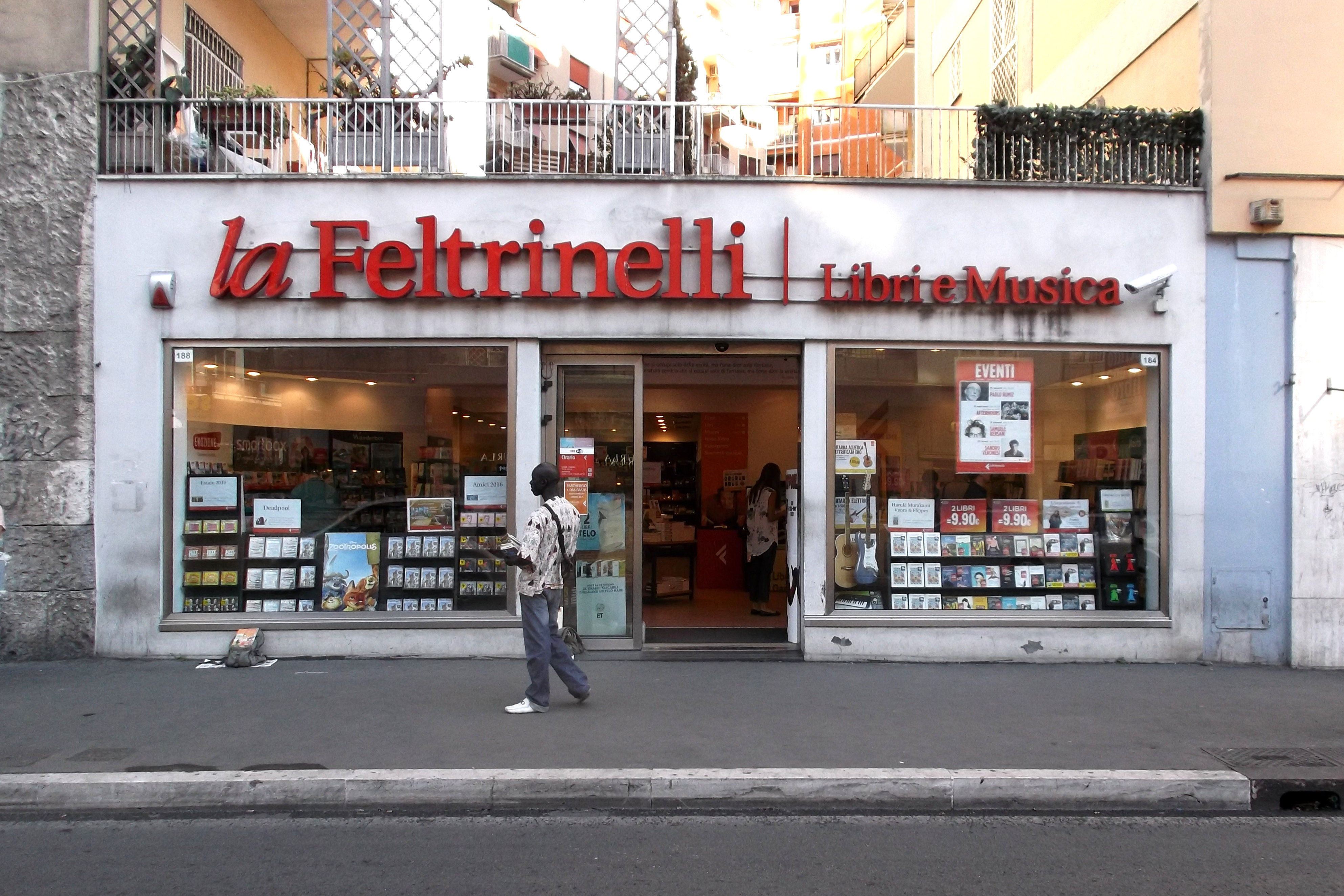 Feltrinelli bookshop in viale Libia, Rome, Italy